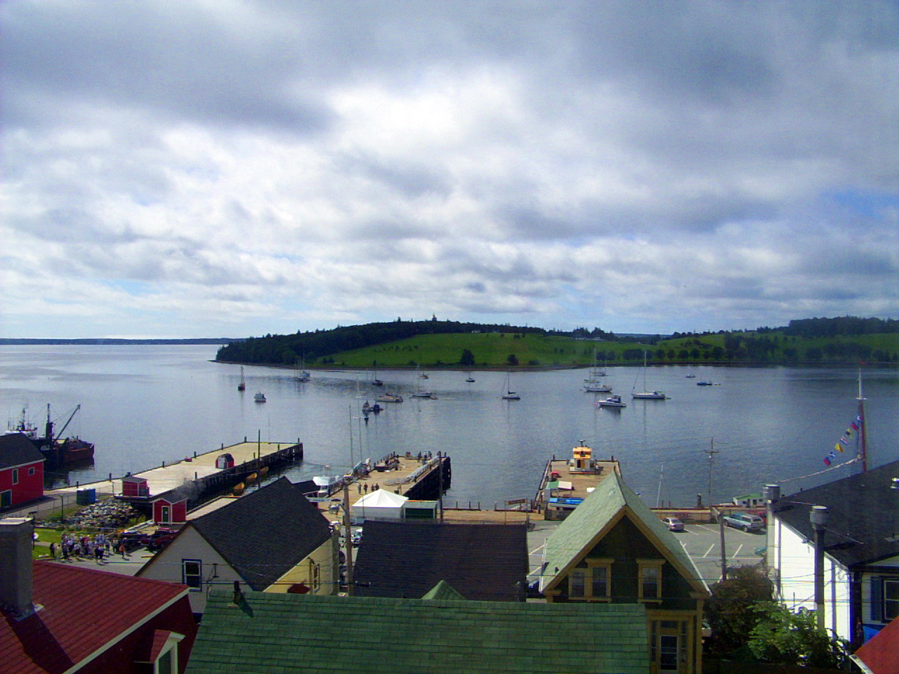 Lunenburg waterfront (as viewed from a hotel)